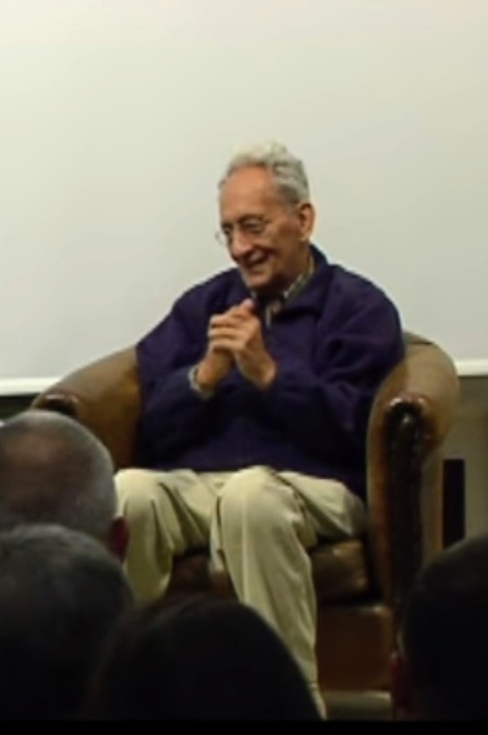 On the occasion of the exhibition "Frank Stella - The Retrospective. Works 1958 - 2012," at the Kunstmuseum Wolfsburg, the American Academy in Berlin hosted a conversation between Stella and Hanno Rauterberg of Die Zeit on the distinctive and groundbreaking work of the renowned American artist. From early recognition of his departure from abstract expressionism through recent retrospectives of his vast and diverse oeuvre, Stella has been celebrated for his boldness in challenging convention and willingness to innovate in works that have grown in complexity and scale throughout his artistic career. With his turn "from Minimalism to Maximalismn ," he established himself as one of the most distinctive artists of the 20th century.